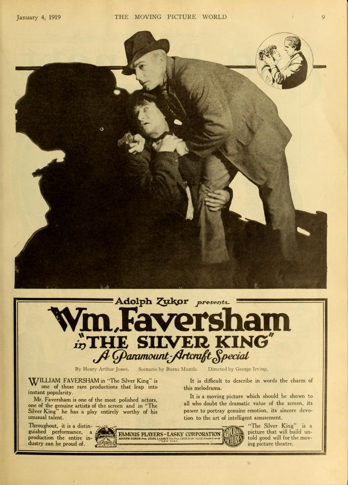 Advertisement in the January 1919 Moving Picture World for the American drama film The Silver King (1919).